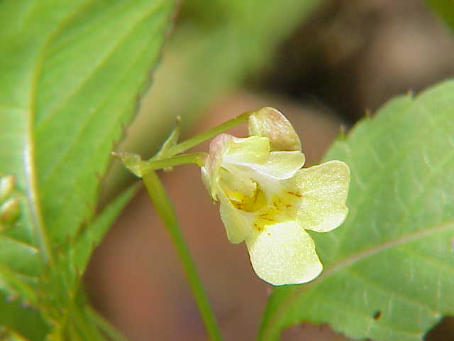 Species: Impatiens parviflora Family: Balsaminaceae Image No. 1